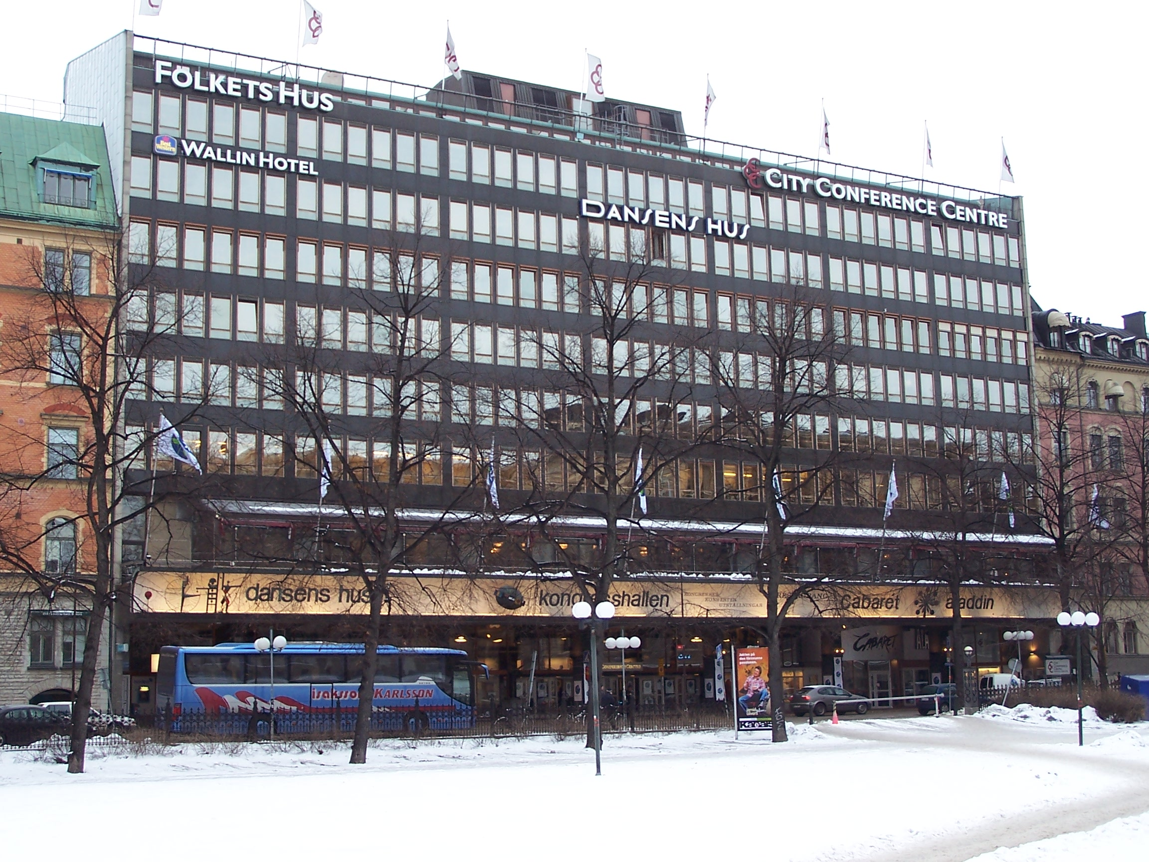 Folkets Hus in Stockholm, Sweden. Built 1951-60. Architect: Sven Markelius.